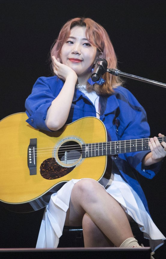 Woo Ji-yoon at the Japan Tokyo Showcase on February 28, 2018